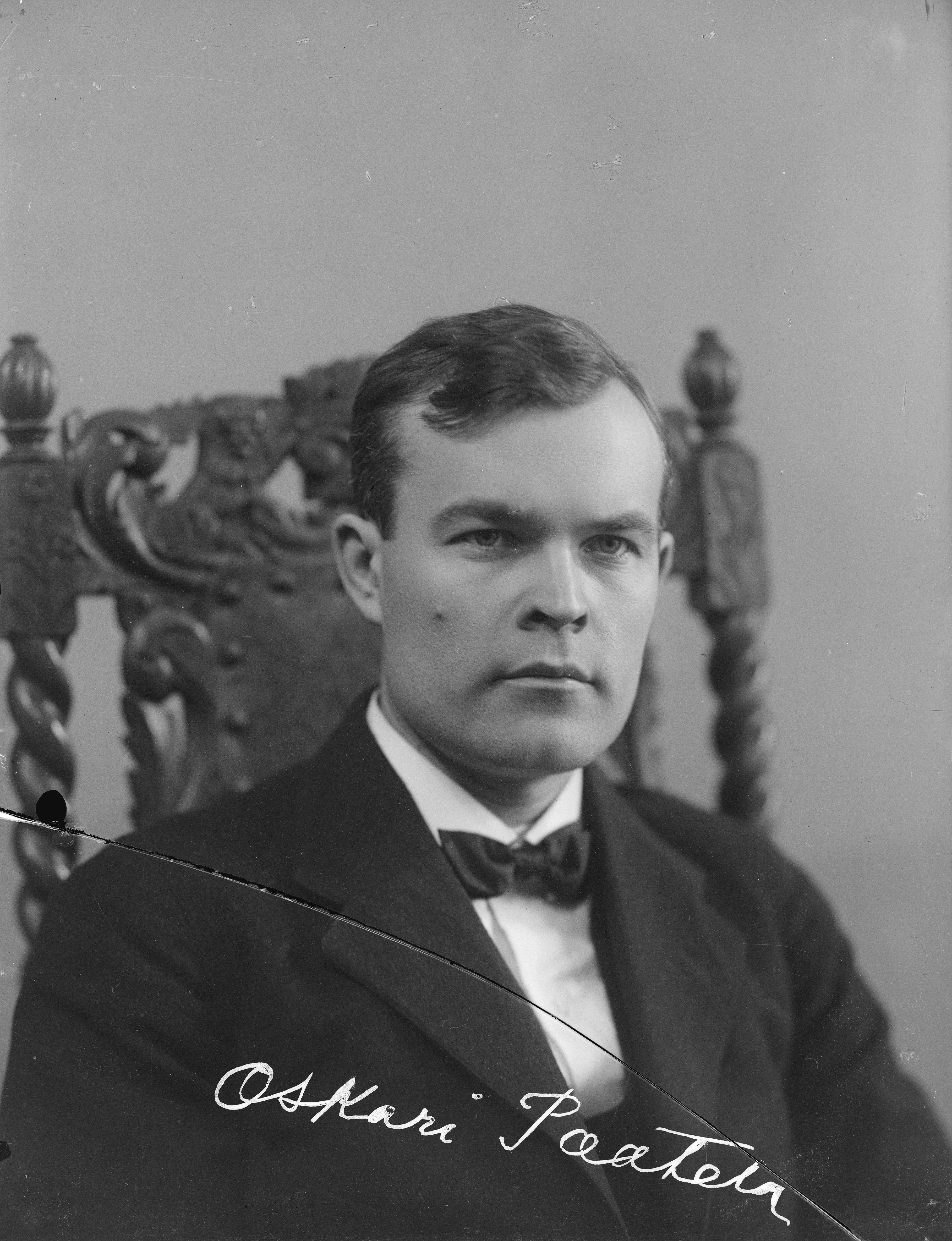 Photograph of the Finnish painter Oskari Paatela (1888–1952).